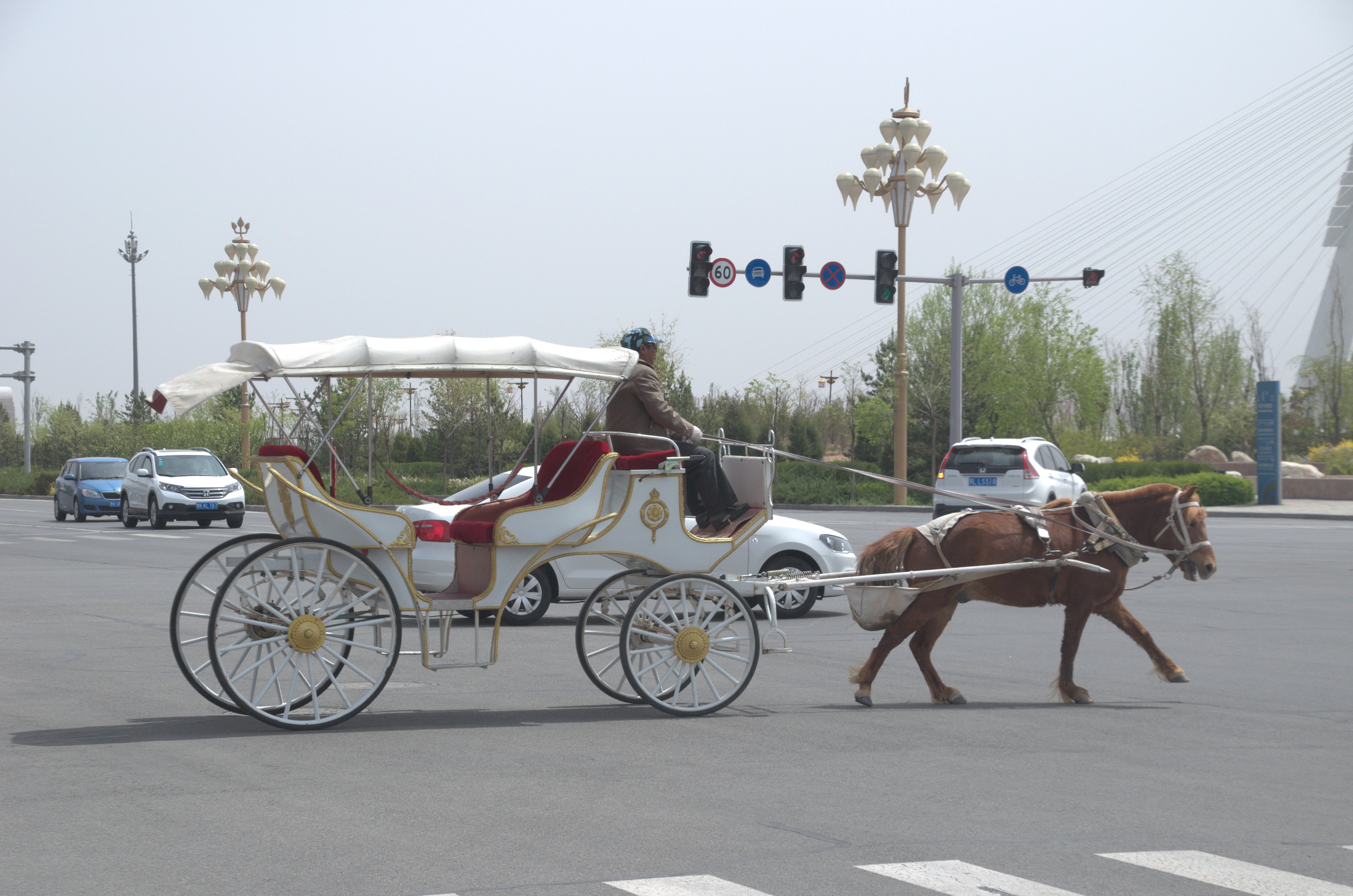 Barouche in new district of Kang Bashi, at Ordos City, Inner Mongolia, China